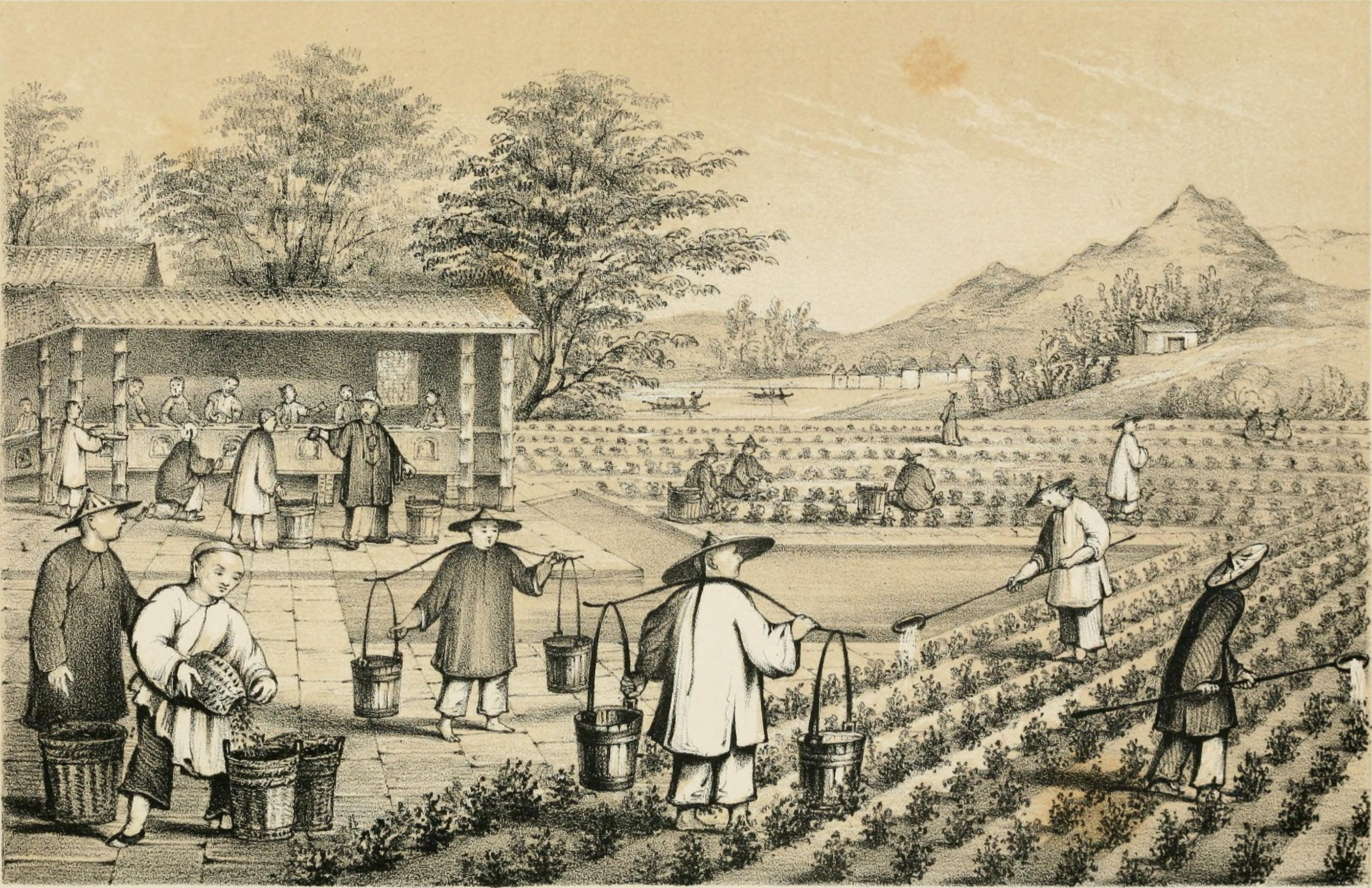 Culture and preparation of tea.